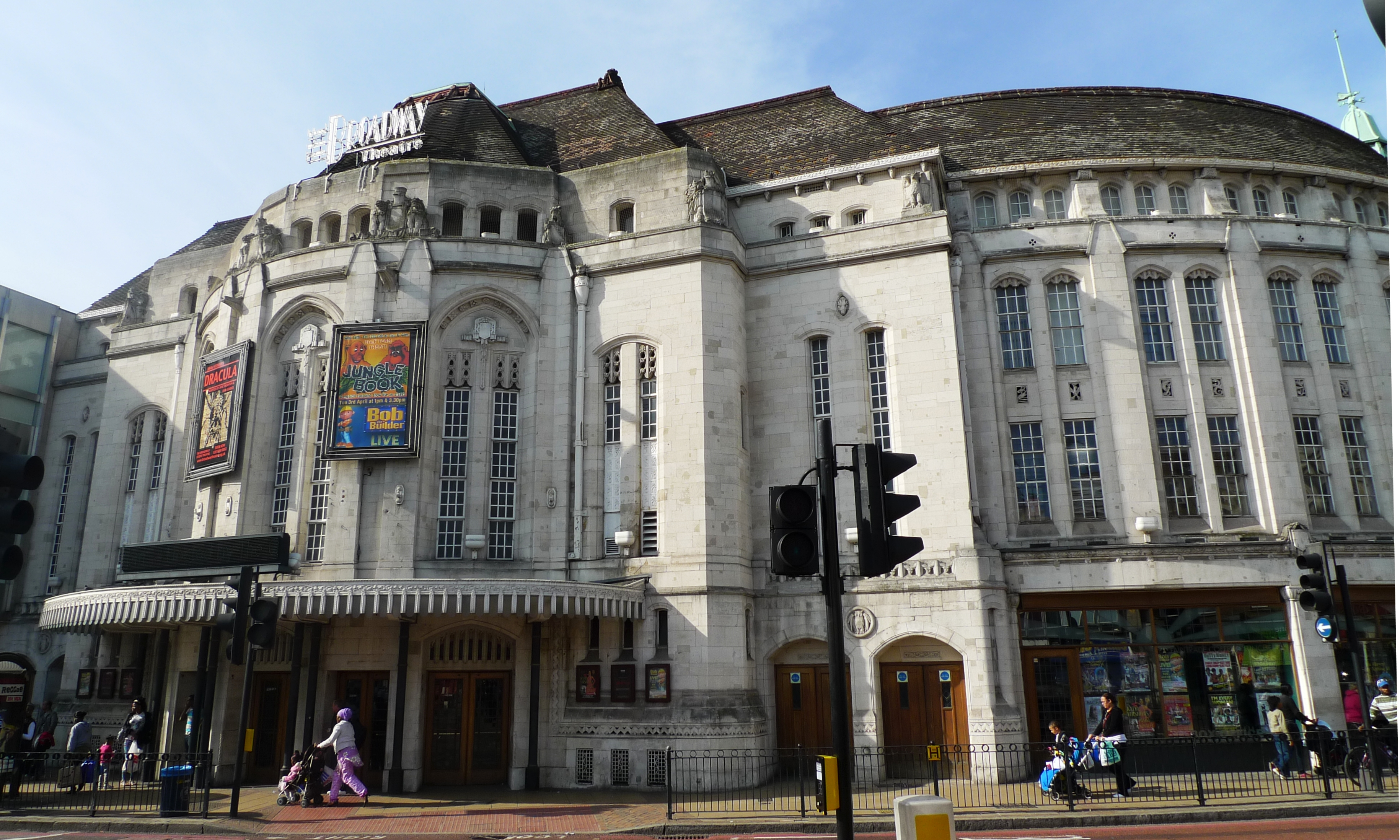 A large theatre/cinema built in 1932, and looking rather nice on the corner of Catford Rd and Rushey Green. Address: Catford Road. Former Name(s): Lewisham Theatre; Catford Public Halls. Owner: (website). Links: Randomness Guide to London Cinema Treasures Wikipedia